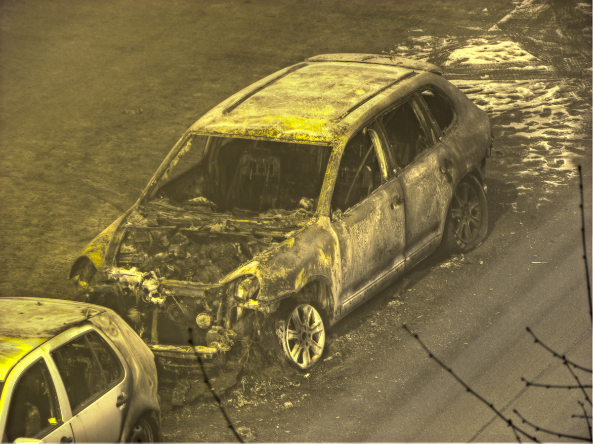 A burned (due to vandalism) Porsche Cayenne on a street in Berlin. Photographer's comment: Picture hdr from 3 pictures, each picture fused together from 10 long exposures (tripod). I used the porsche as prop in the pictures that can be seen here.